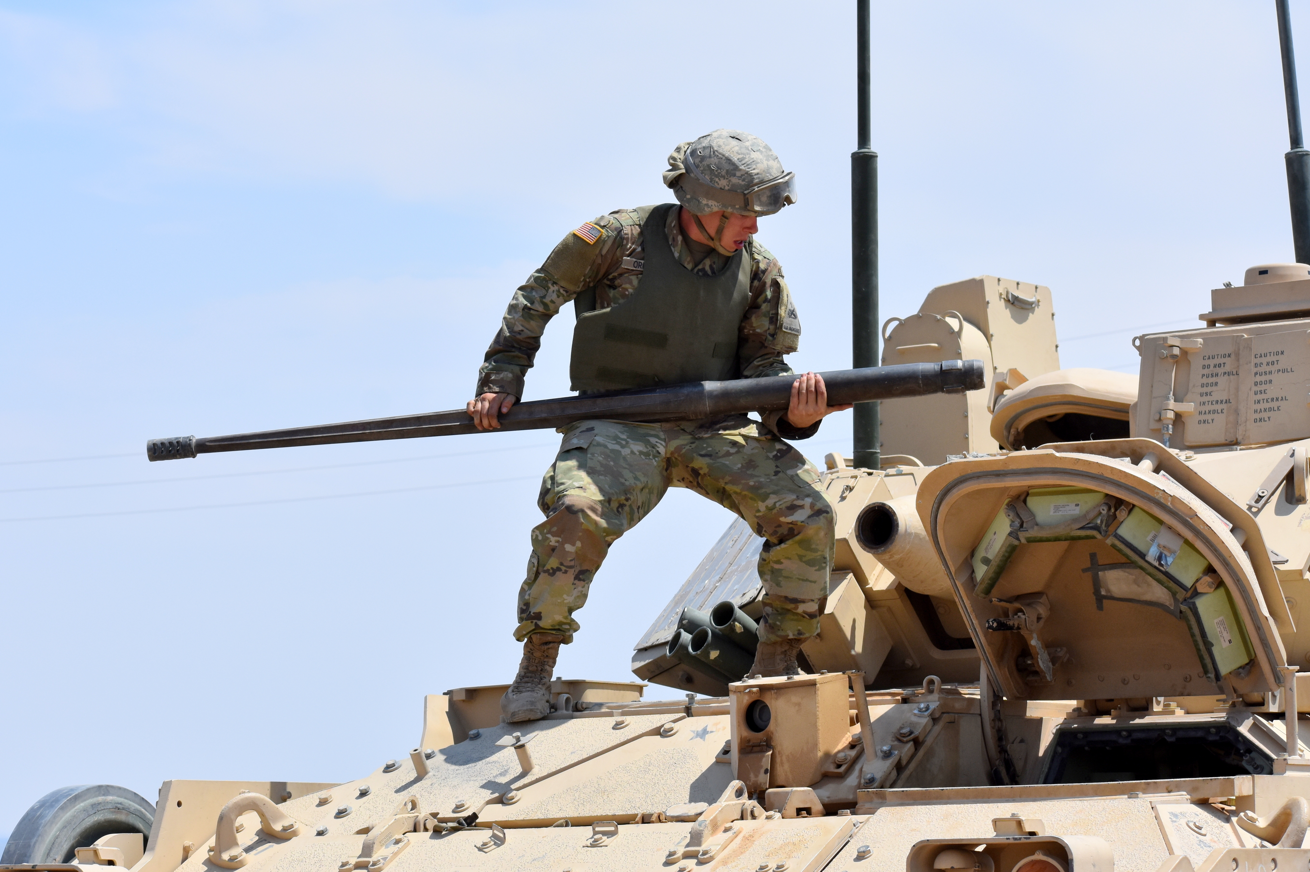 Pfc. James Ormsby, assigned to 2nd Squadron, 13th Cavalry, 3rd Armored Brigade Combat Team, 1st Armored Division, prepares to replace the barrel of a M242 Bushmaster 25mm Chain Gun on an M2A3 Bradley Fighting Vehicle during gunnery training at the Doña Ana Range Complex, N.M., Aug. 3, 2018.